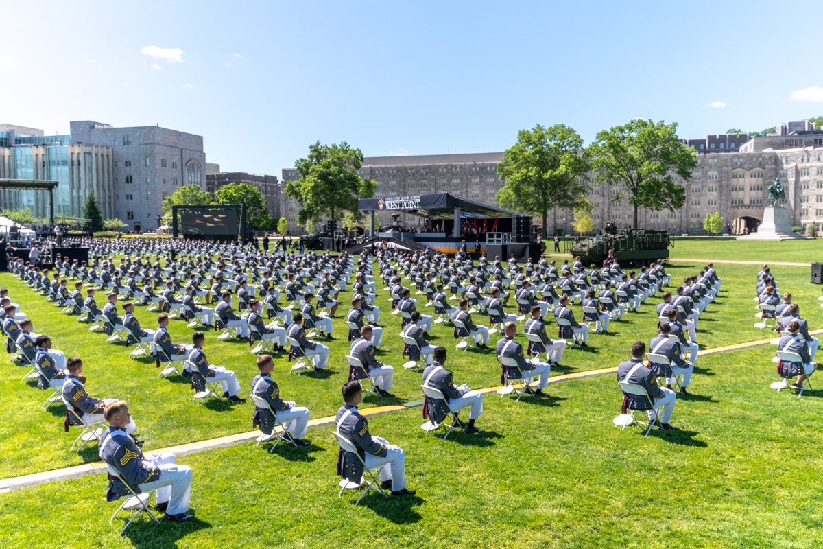 President Trump at the U.S. Military Academy Graduation